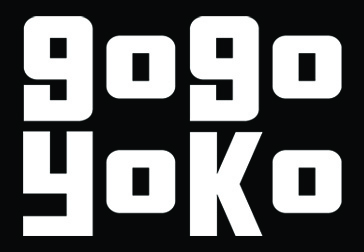 gogoyoko company logo